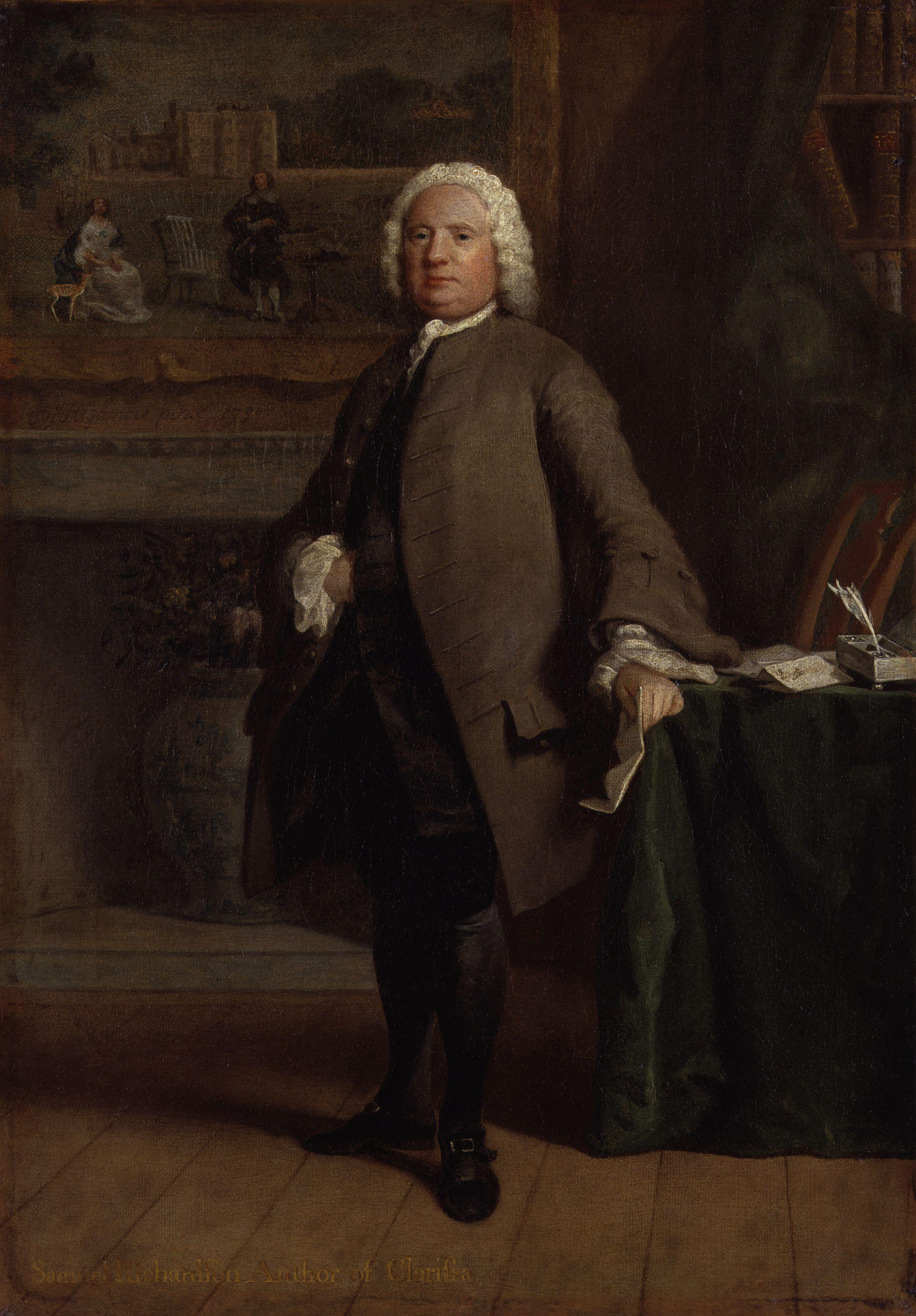 All images in this batch have been confirmed as author died before 1939 according to the official death date listed by the NPG.